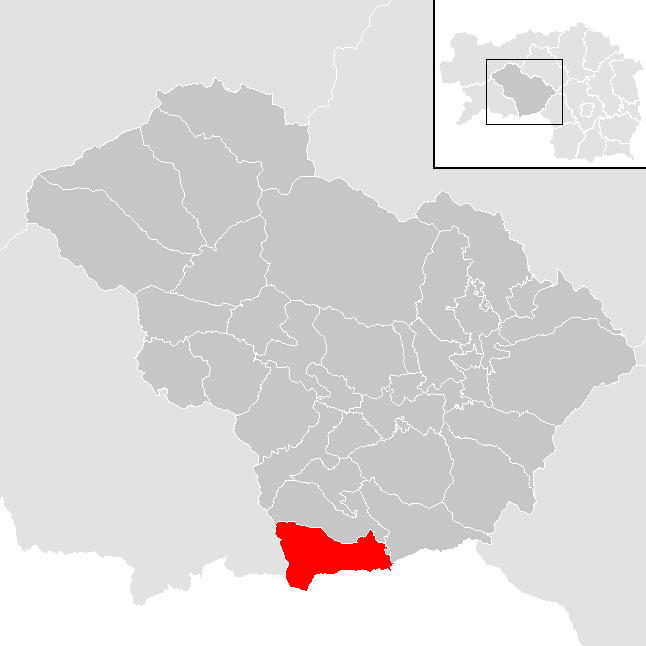 district Murtal in Styria, Austria